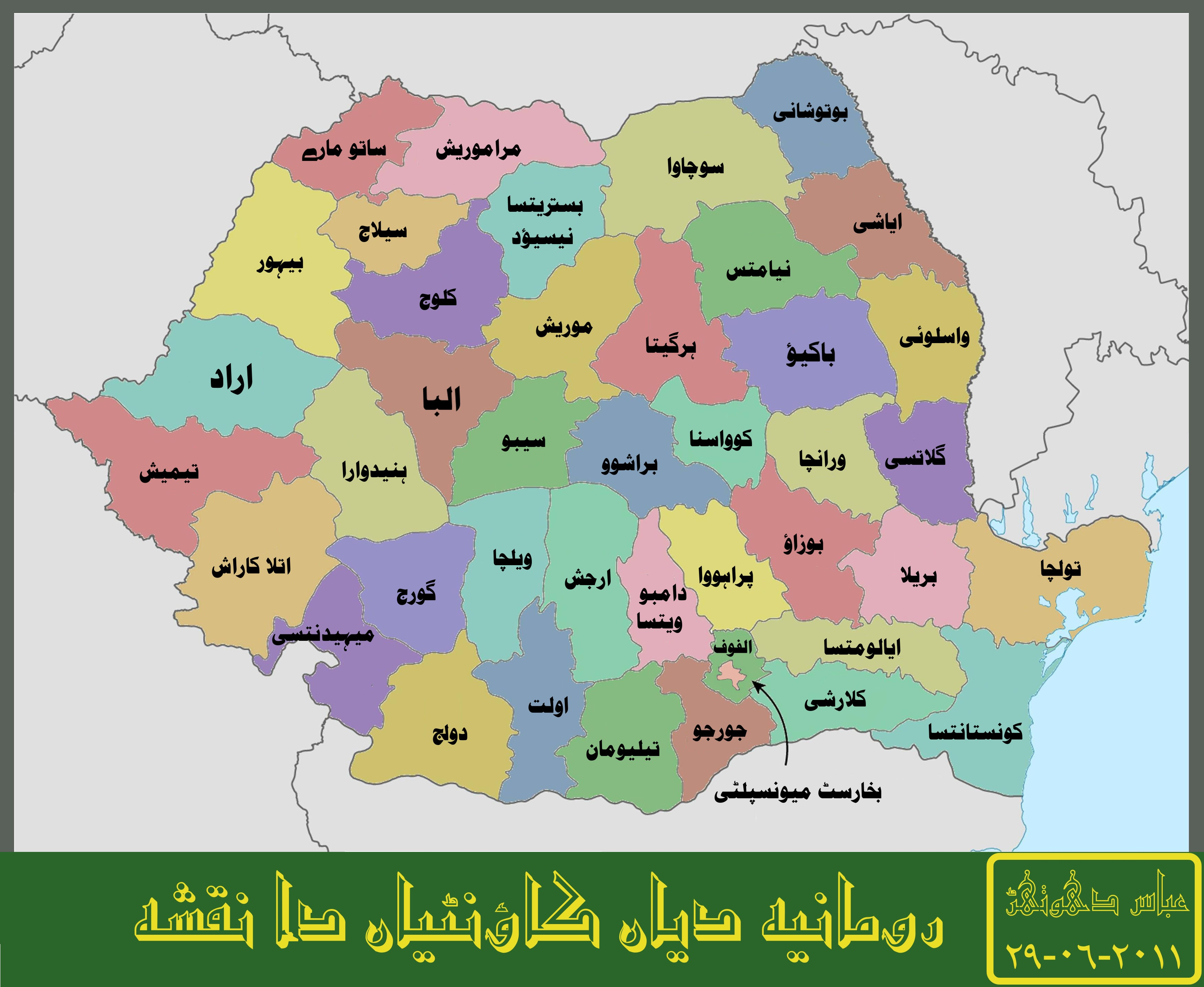 Map of Counties of Romania in Punjabi.